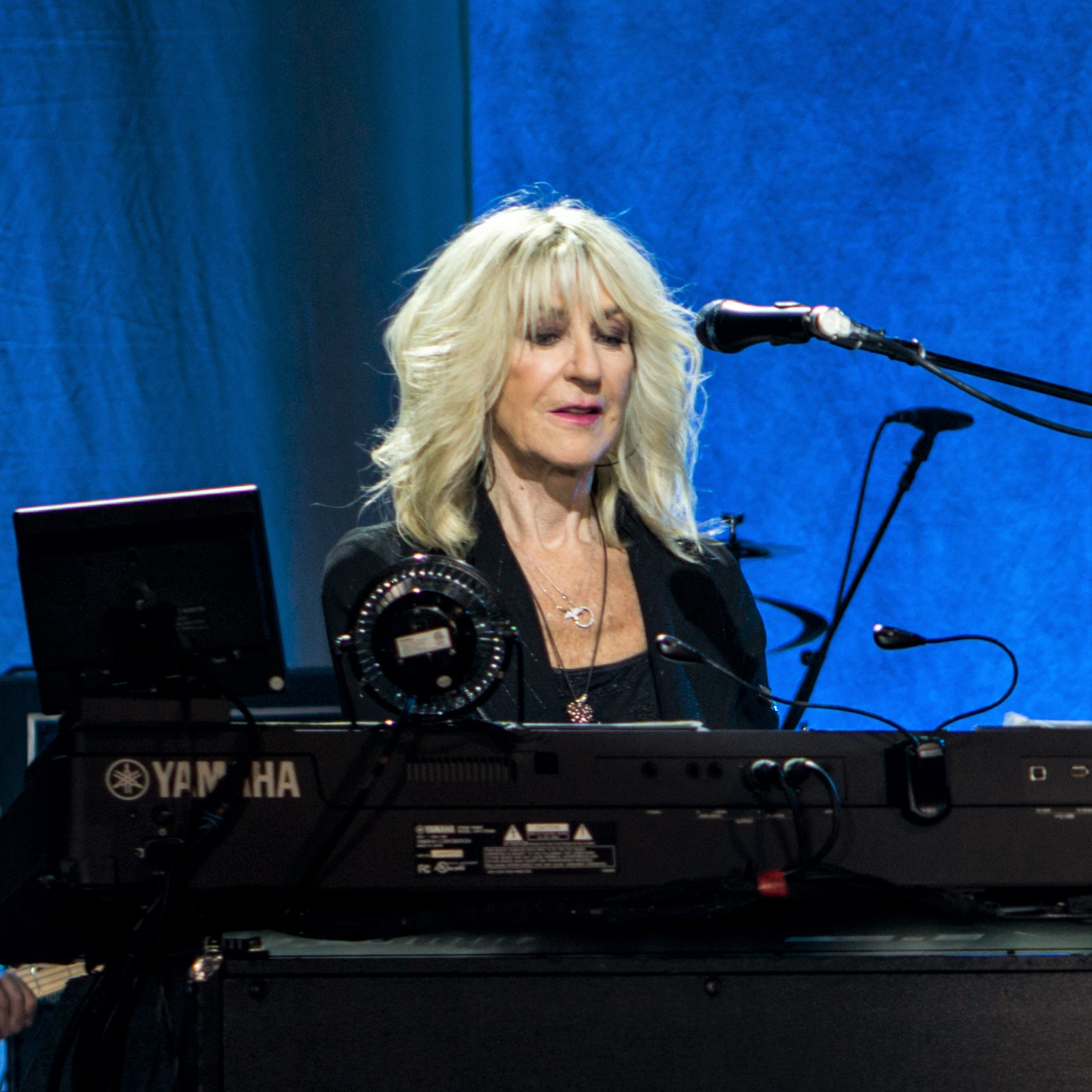 A cropped version of File:BuckMcVieOhio031117-50 (37650690384).jpg